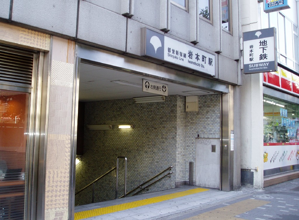 A3 Exit of Iwamotocho Station